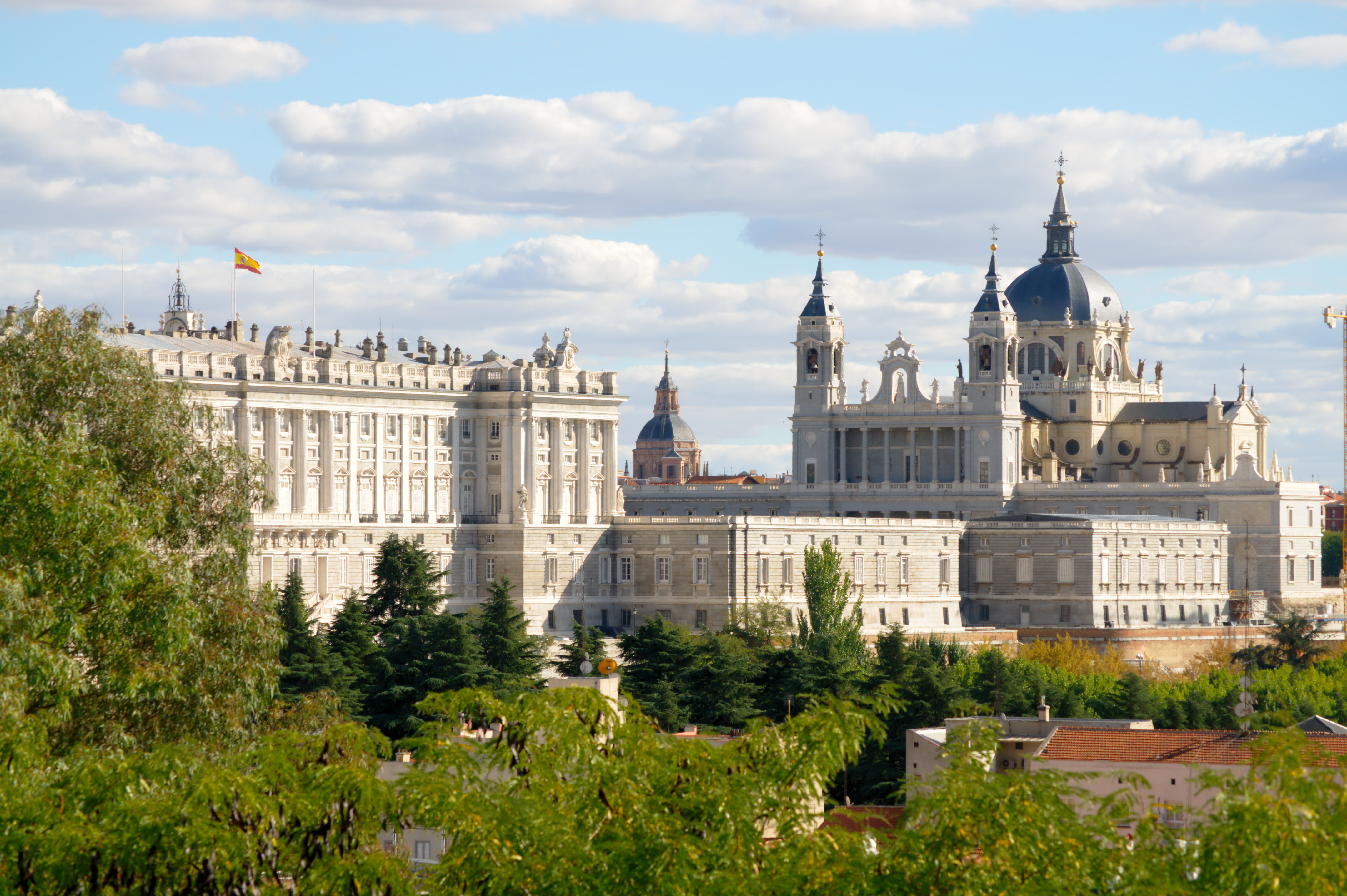 Royal Palace and Almudena Cathedral